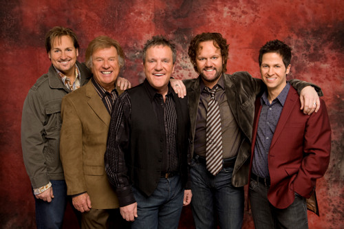 1st GVB photo shoot with the new FAB FIVE for Spring '09 and Fall '09 Reunited tour. (Mark is wearing DP's vest)